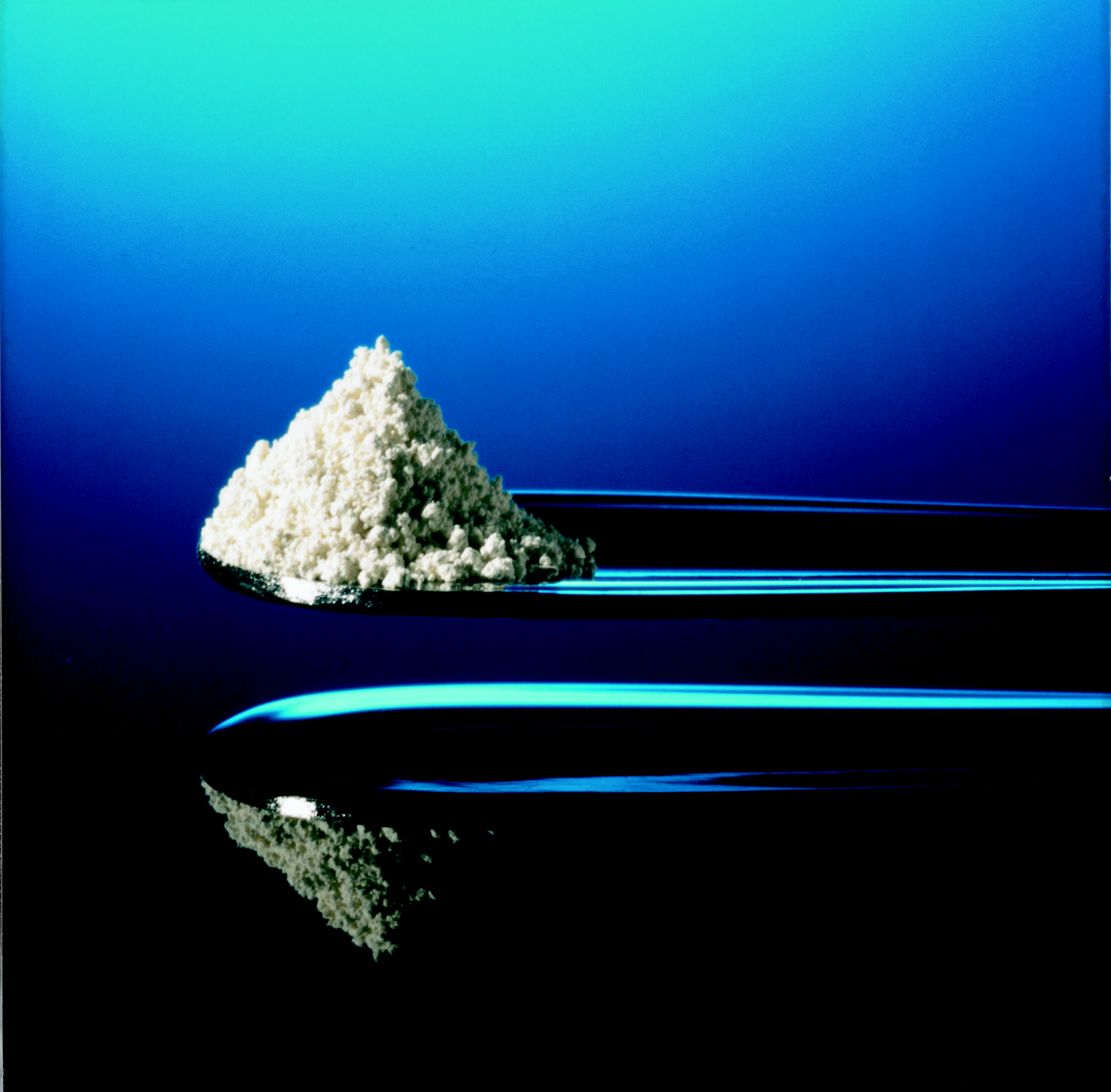 Powder of refined Neuburg Siliceous Earth on a spoon